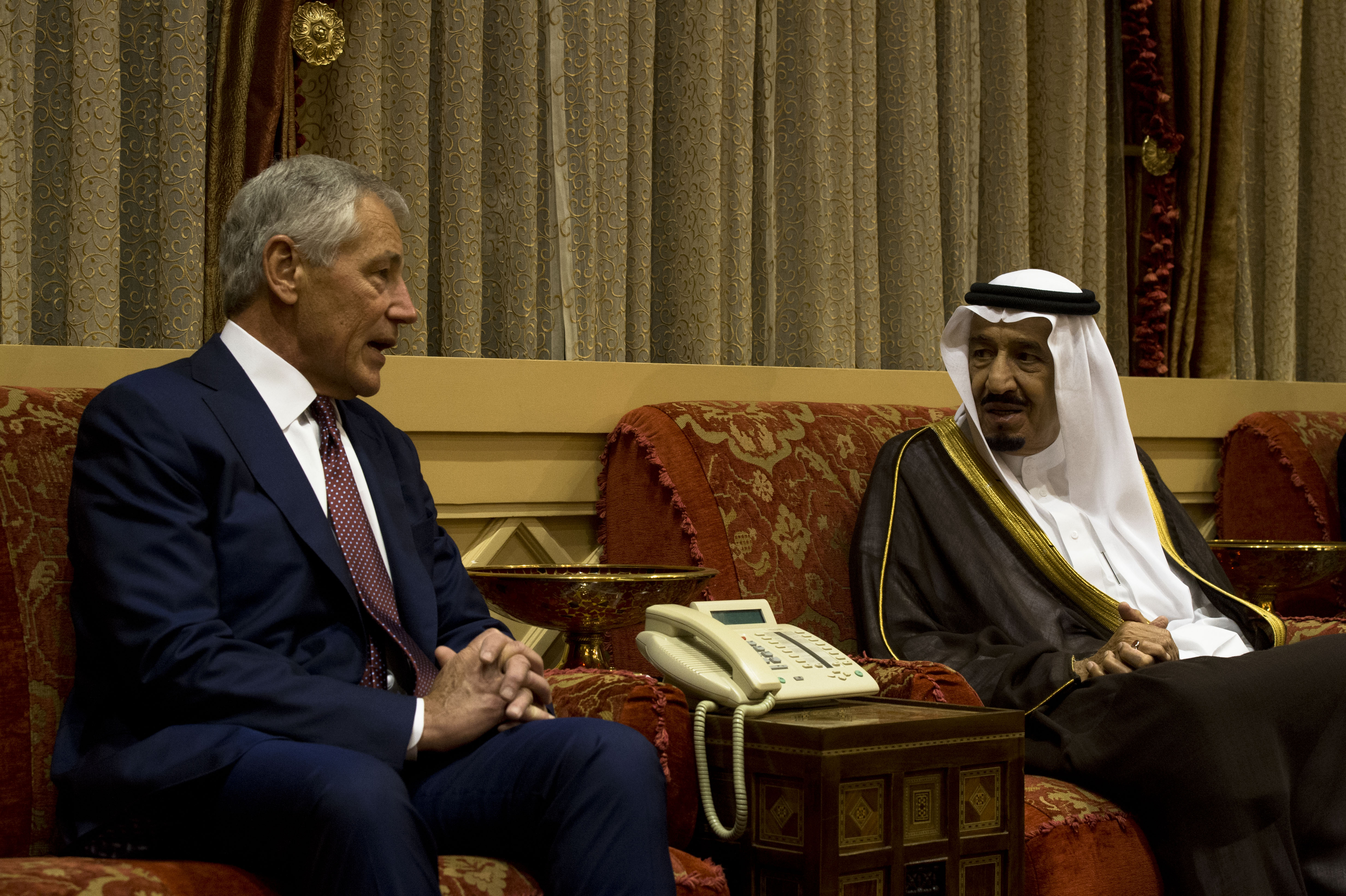 Secretary of Defense Chuck Hagel meets with Crown Prince and Minister of Defense Salman bin Abdulaziz al Saud in Riyadh, Saudi Arabia, April 23, 2013. The Kingdom of Saudi Arabia is Hagel's third stop on a six day trip to the middle east to meet with defense counterparts.(Photo by Erin A. Kirk-Cuomo) (Released)